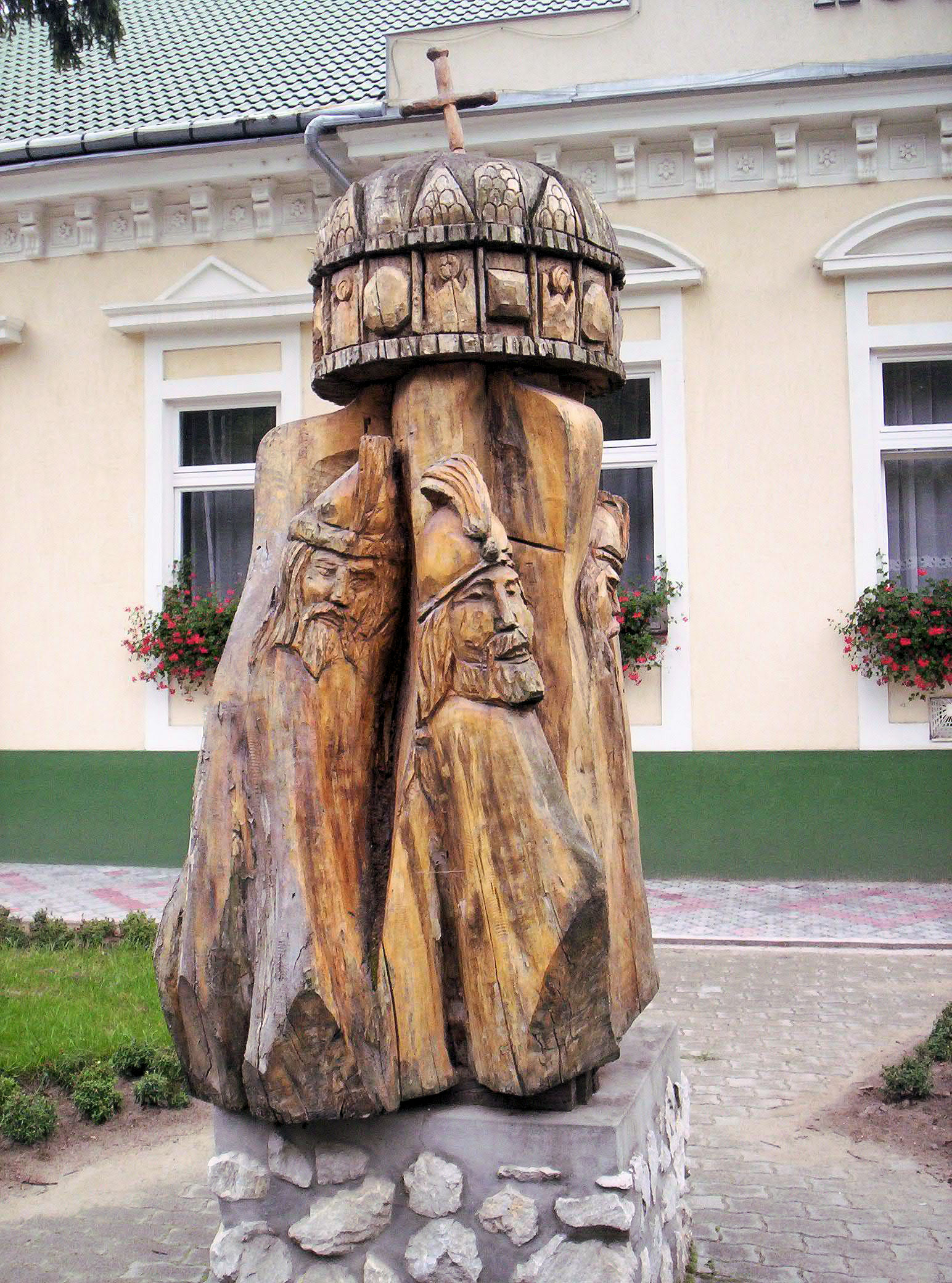 Statue of the Seven Leaders of the Hungarians.